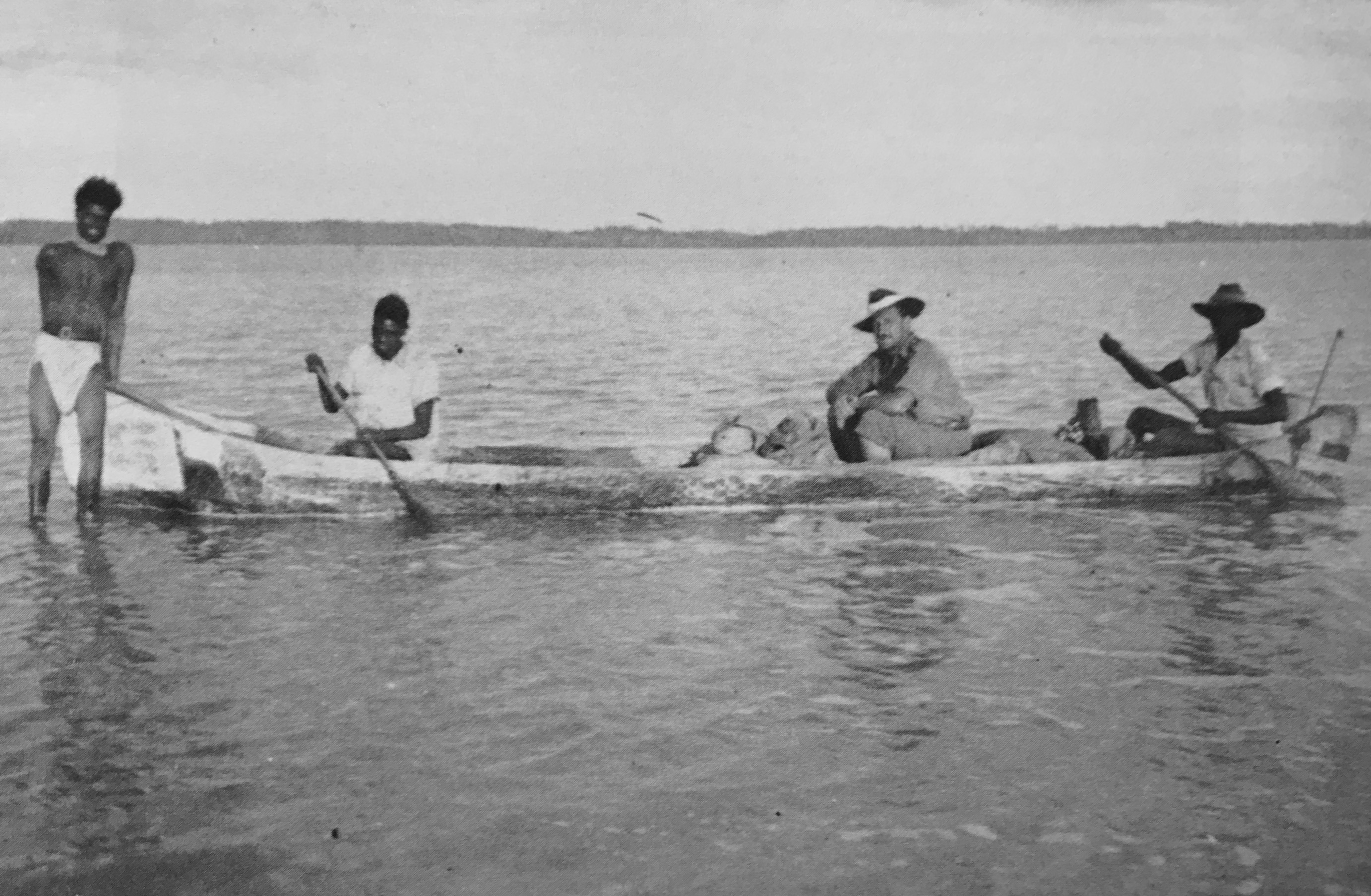 Whispering Wind - Adventures in Arnhem Land, by Syd Kyle-Little